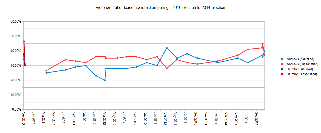 Victorian Labor leader satisfaction polling, 2010-2014 Created with OpenOffice from data sourced from Victorian state election, 2014.